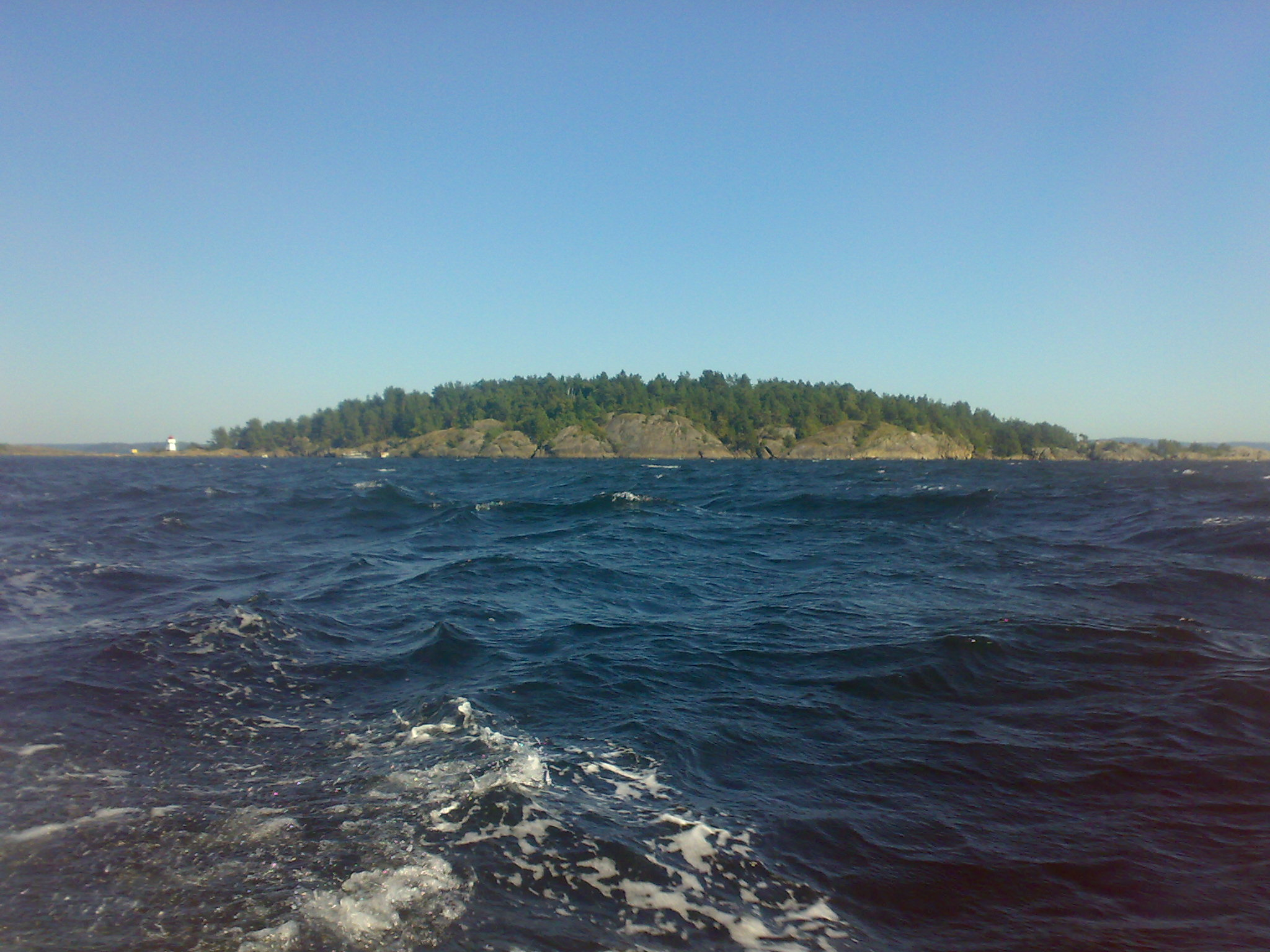 Ramvikholmen in Hurum, Oslo Fjord, Norway